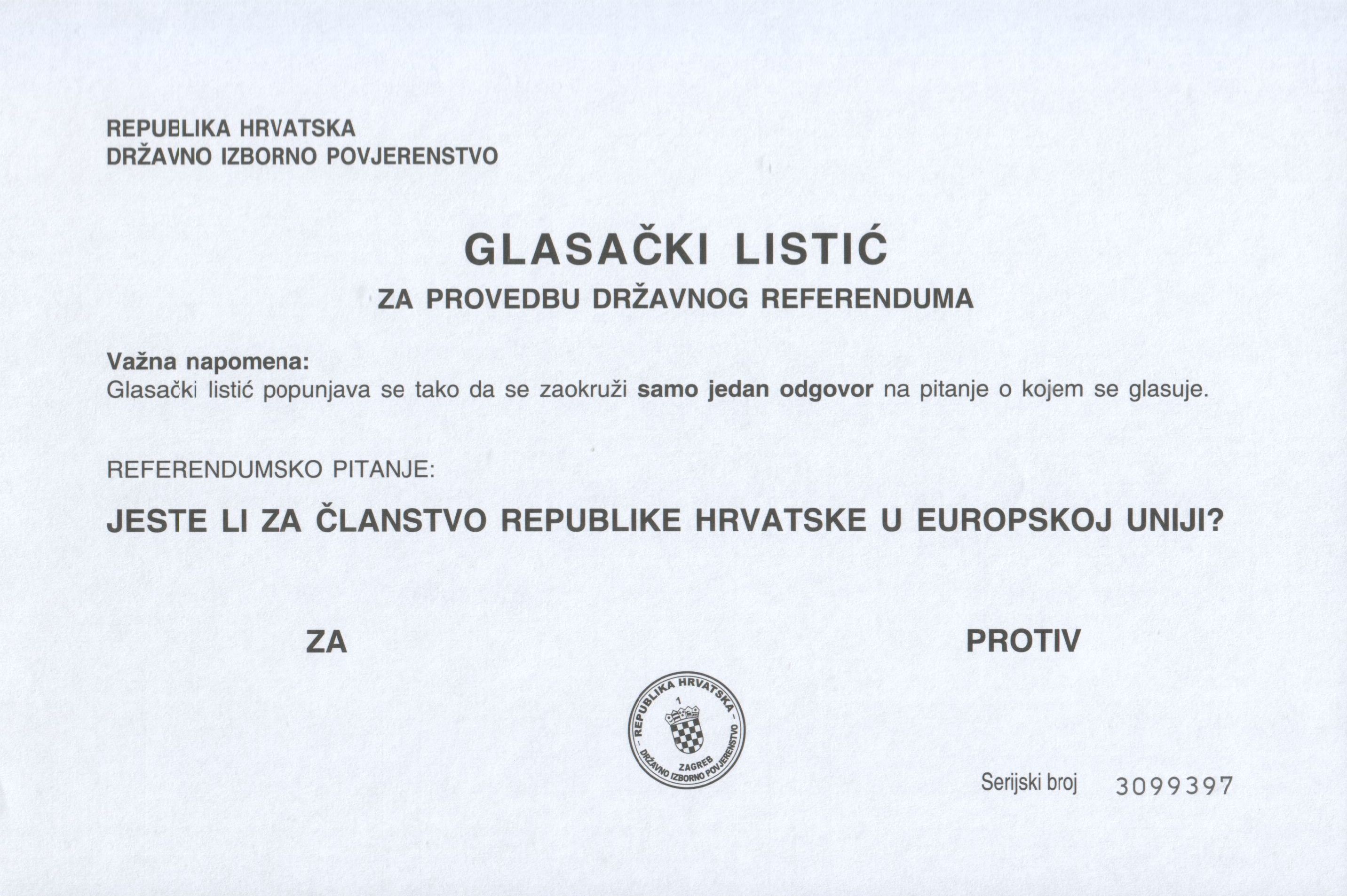 Ballot used in the Croatian European Union membership referendum on 22 January 2012.